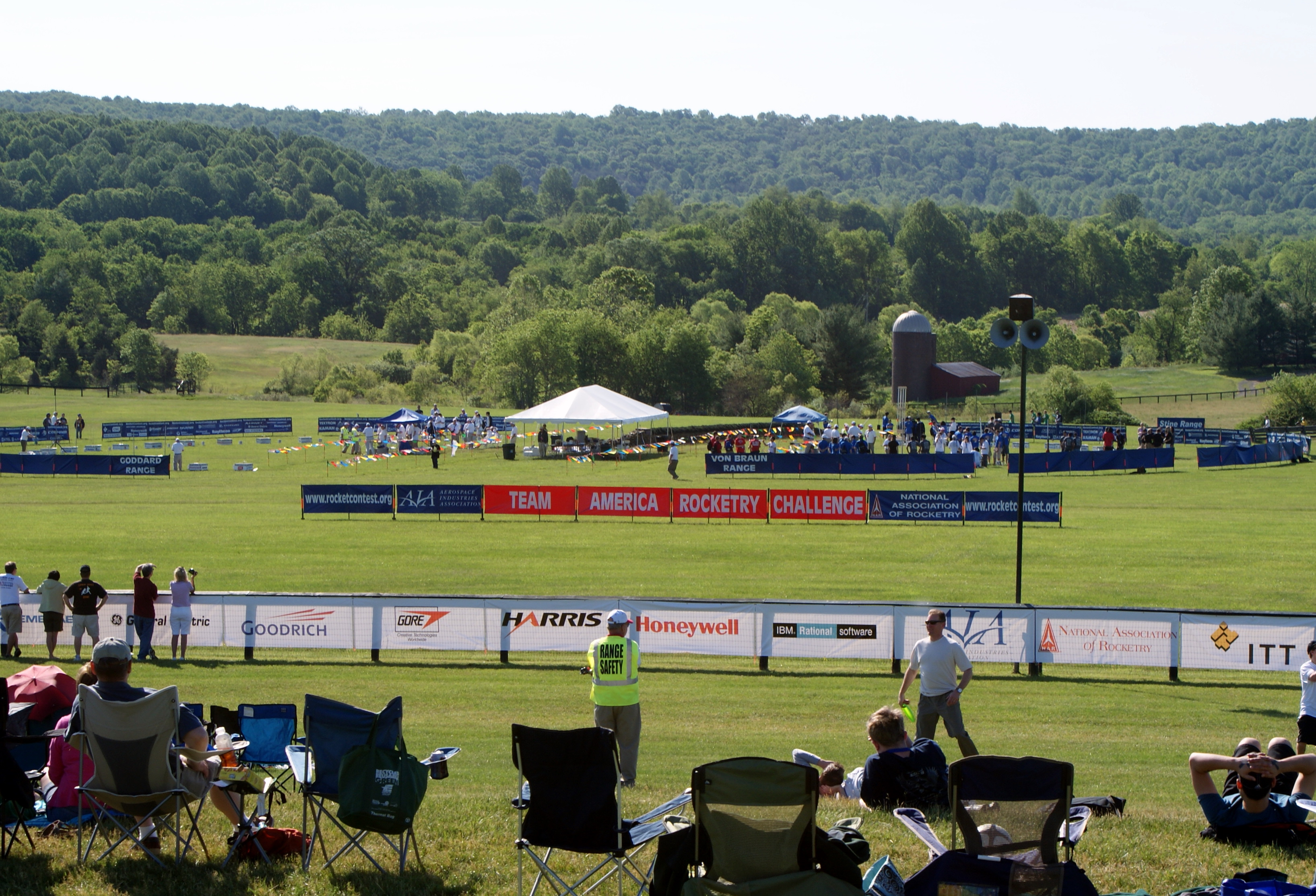 Team America Rocketry Challenge Finals, The Plains, VA, 2006